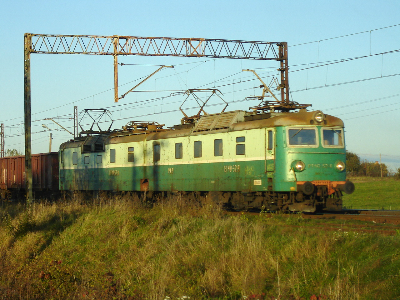 ET40-52 near the railway crossing in Warlubie, Poland.